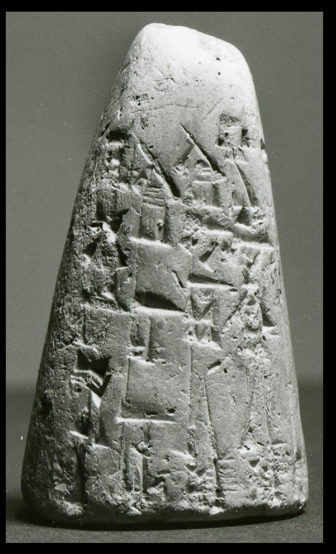 This unglazed clay cone has an inscription that features the name of Sin Kashid of Uruk.